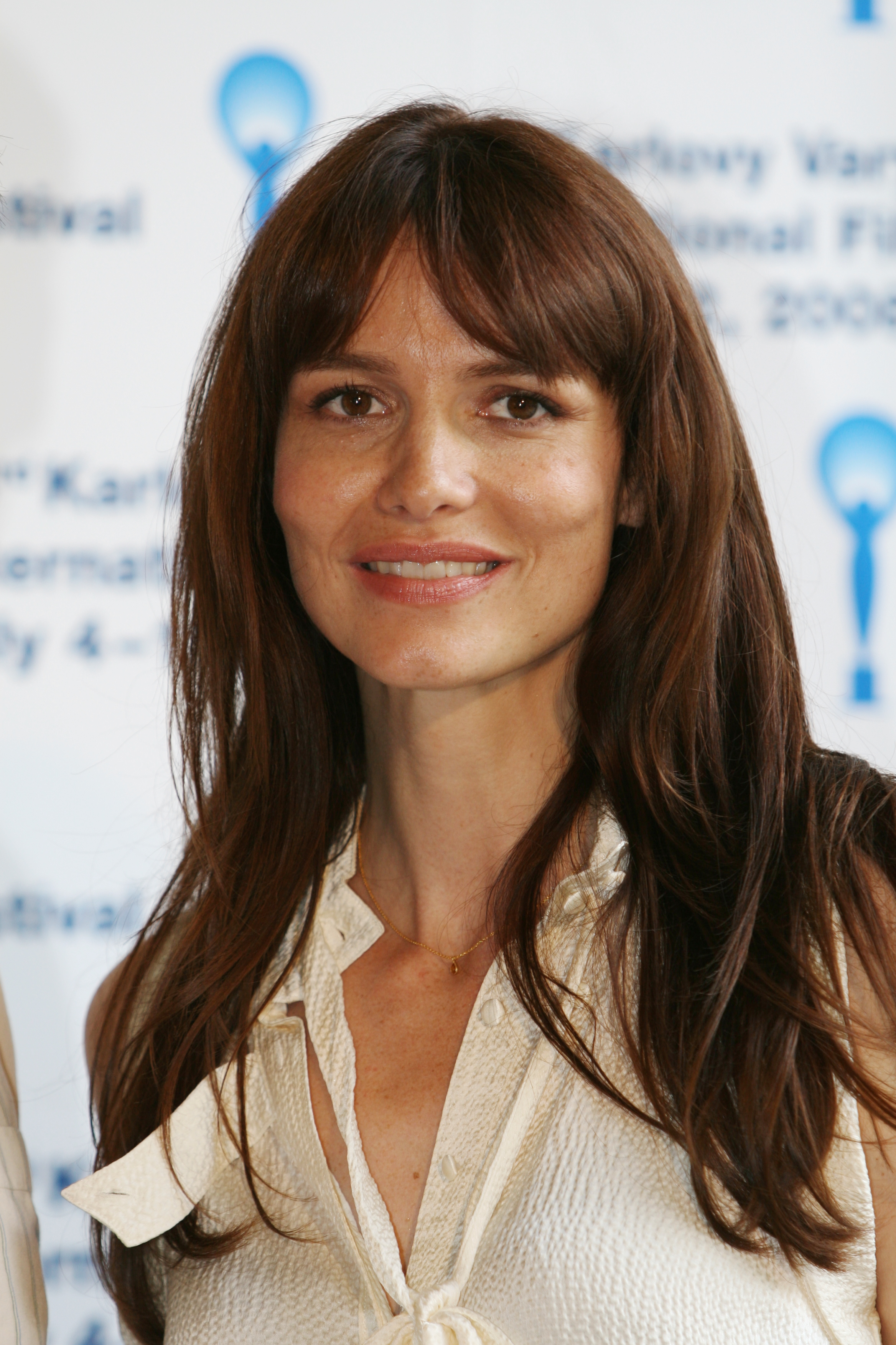 Saffron Burrows at 43rd Karlovy Vary International Film Festival